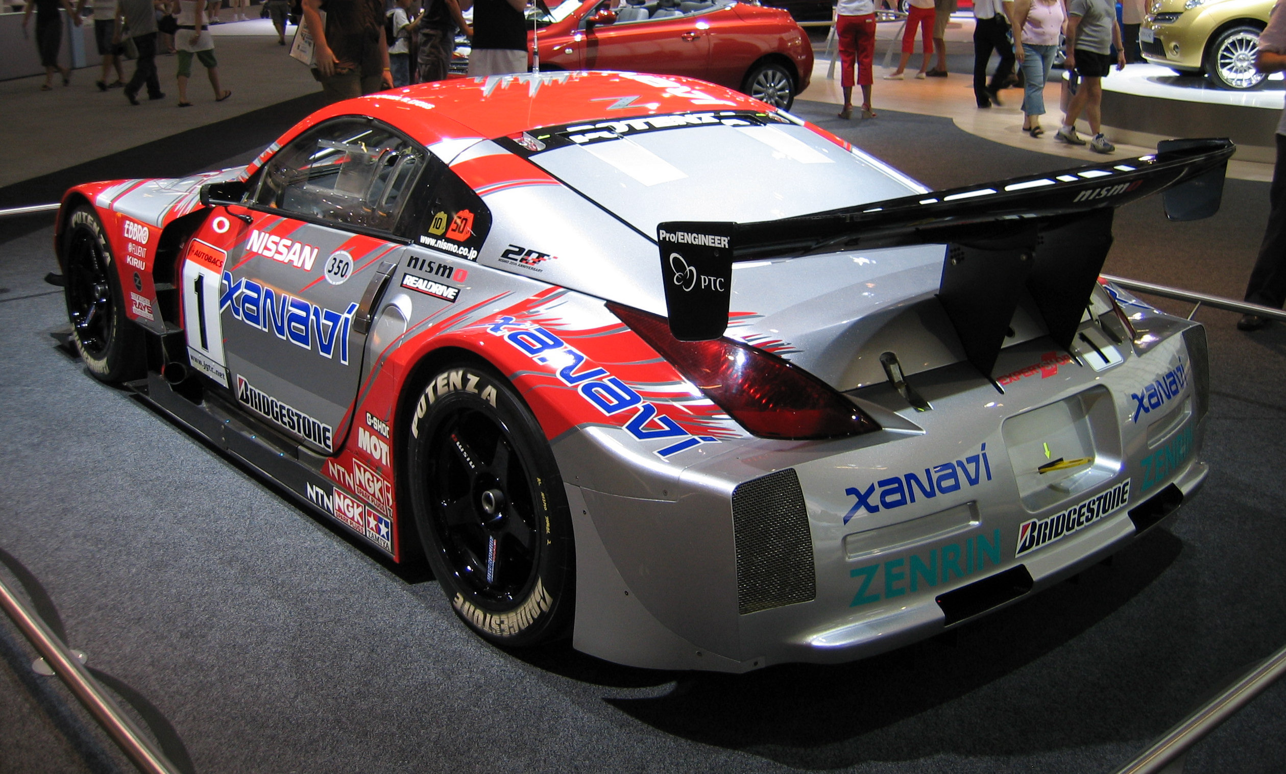 Xanavi Nissan 350Z racecar at the 2006 British International Motor Show